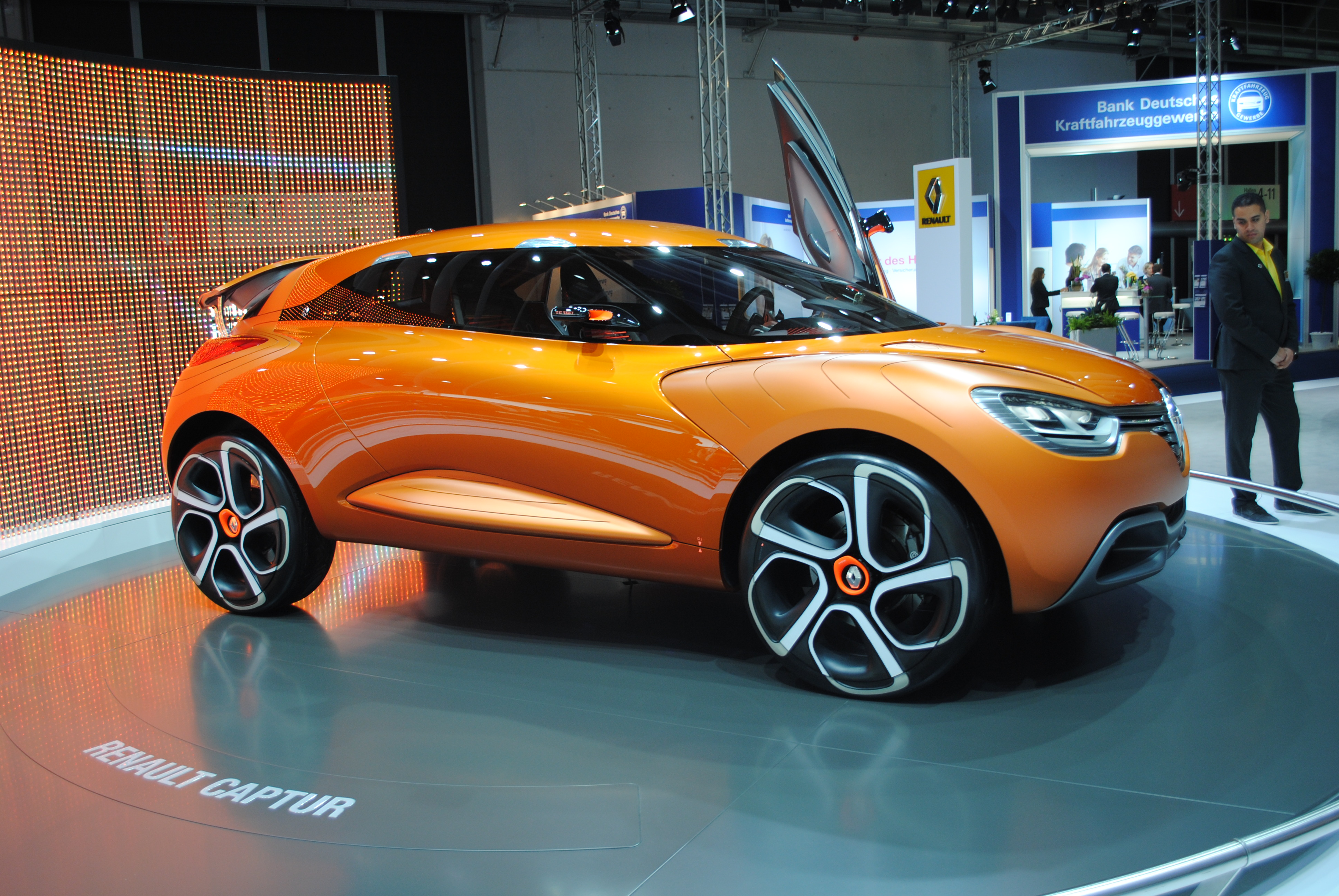 More photos and info